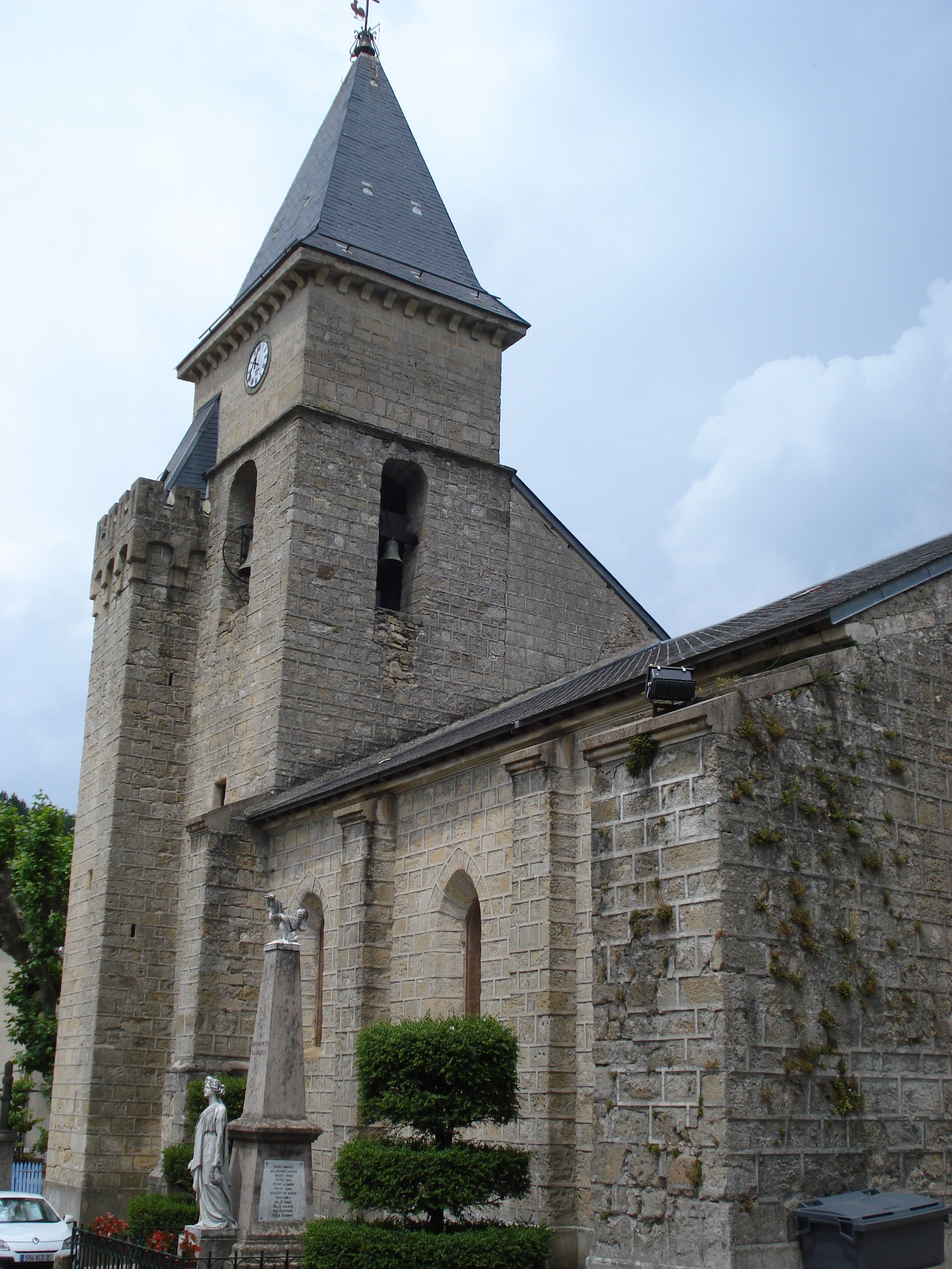 Alzon (Gard, Fr) church and war memorial.